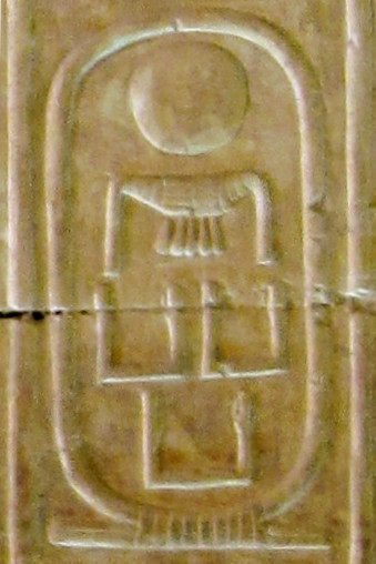 Cartouche 61, Abydos King List. Temple of Seti I, Abydos, Egypt